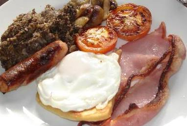 A classic traditional scottish breakfast with bacon